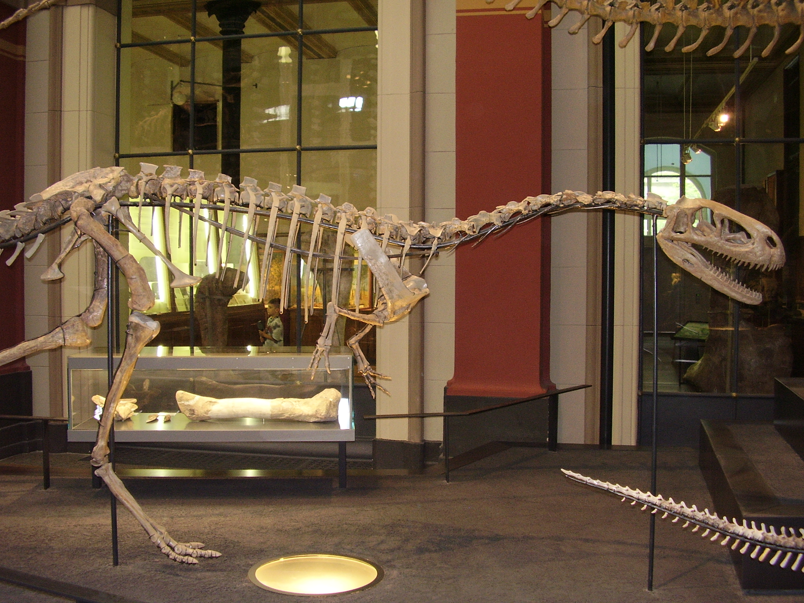 Partial Elaphrosaurus skeleton in the Natural history museum in Berlin.